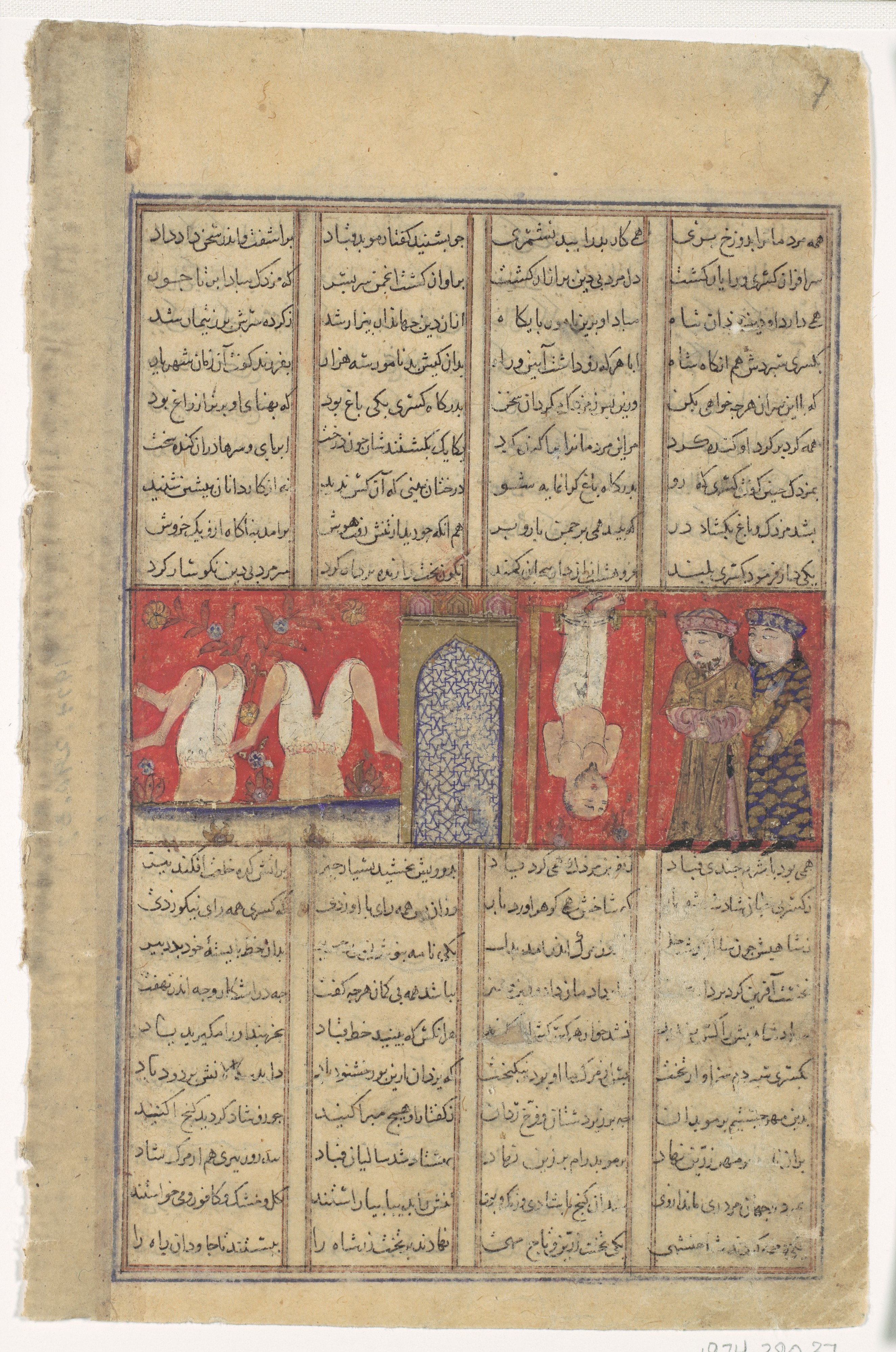 Folio from an illustrated manuscript; Codices